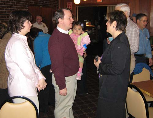 Lowell School Committee member Jackie Doherty lobbying the Lt Gov for more funds for Lowell schools at Greater Lowell Area Democrats meeting, April 21, 2007.